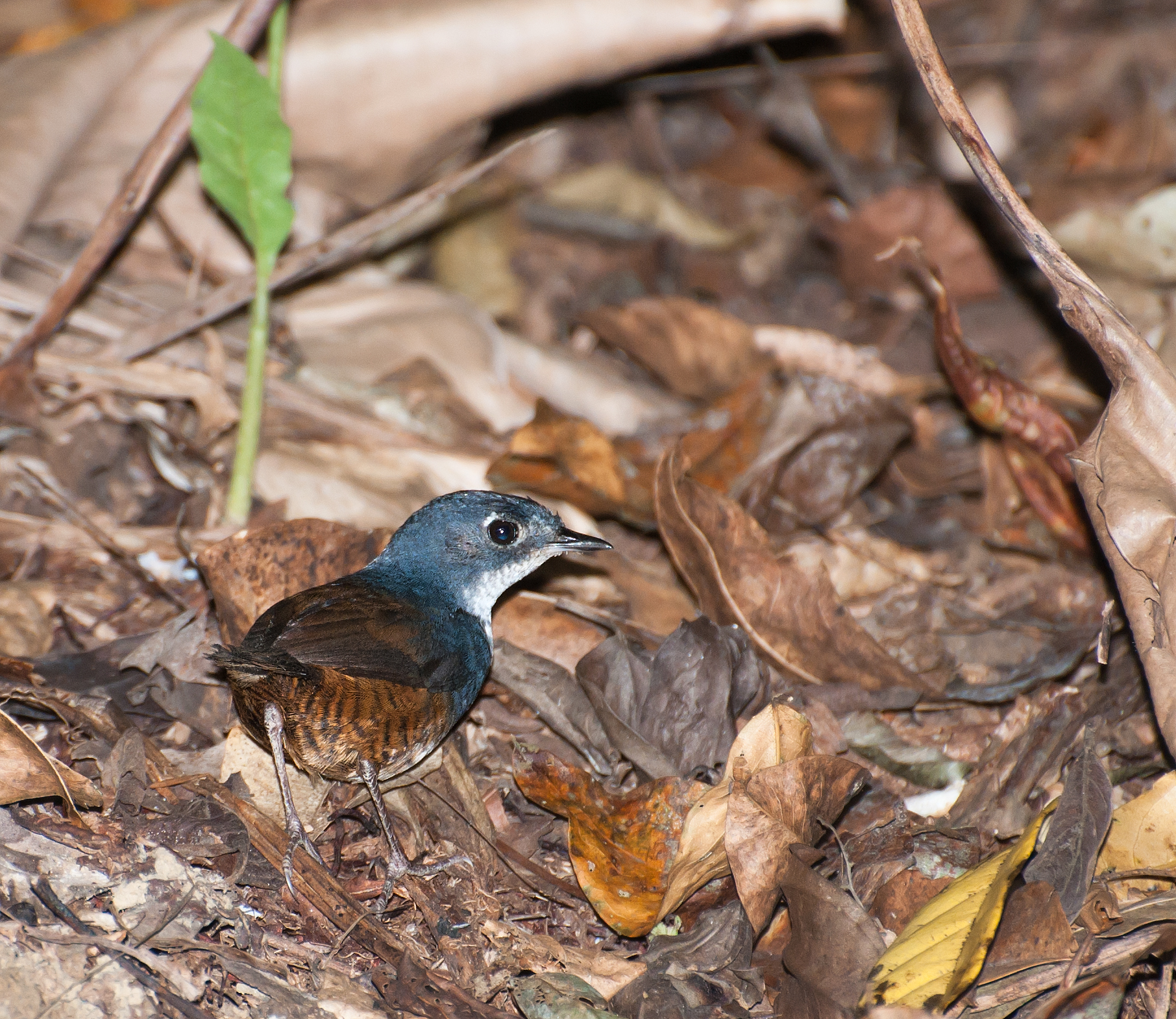 A White-breasted Tapaculo in Vale do Ribeira, Registro, São Paulo, Brazil.